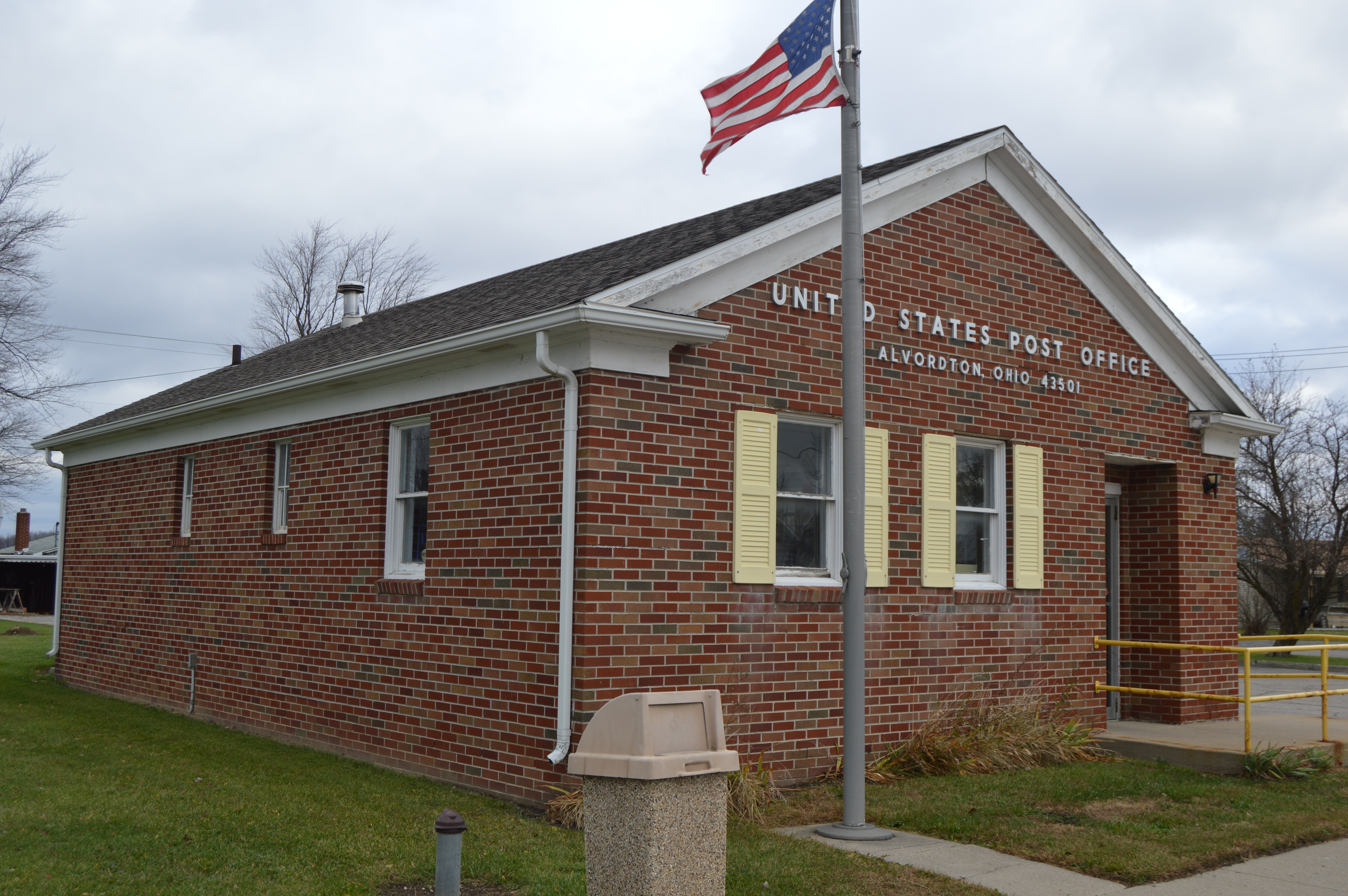 Front and western side of the Alvordton post office, located at 119 E. Main Street (U.S. Route 20) in Alvordton, Ohio, United States.